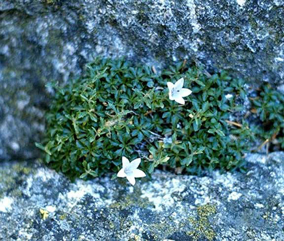 Photo of the California endemic Castle Crags harebell (Campanula shetleri). Castle Crags Wilderness Area — Shasta Trinity National Forest, Northern California.